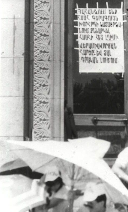 Yerevan demonstration on theater square. Summer-1988.